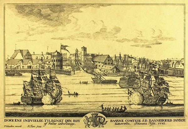 The inauguration of the Old Dock in Copenhagen 1739. Published by Frédéric Louis Norden (1708-1742)